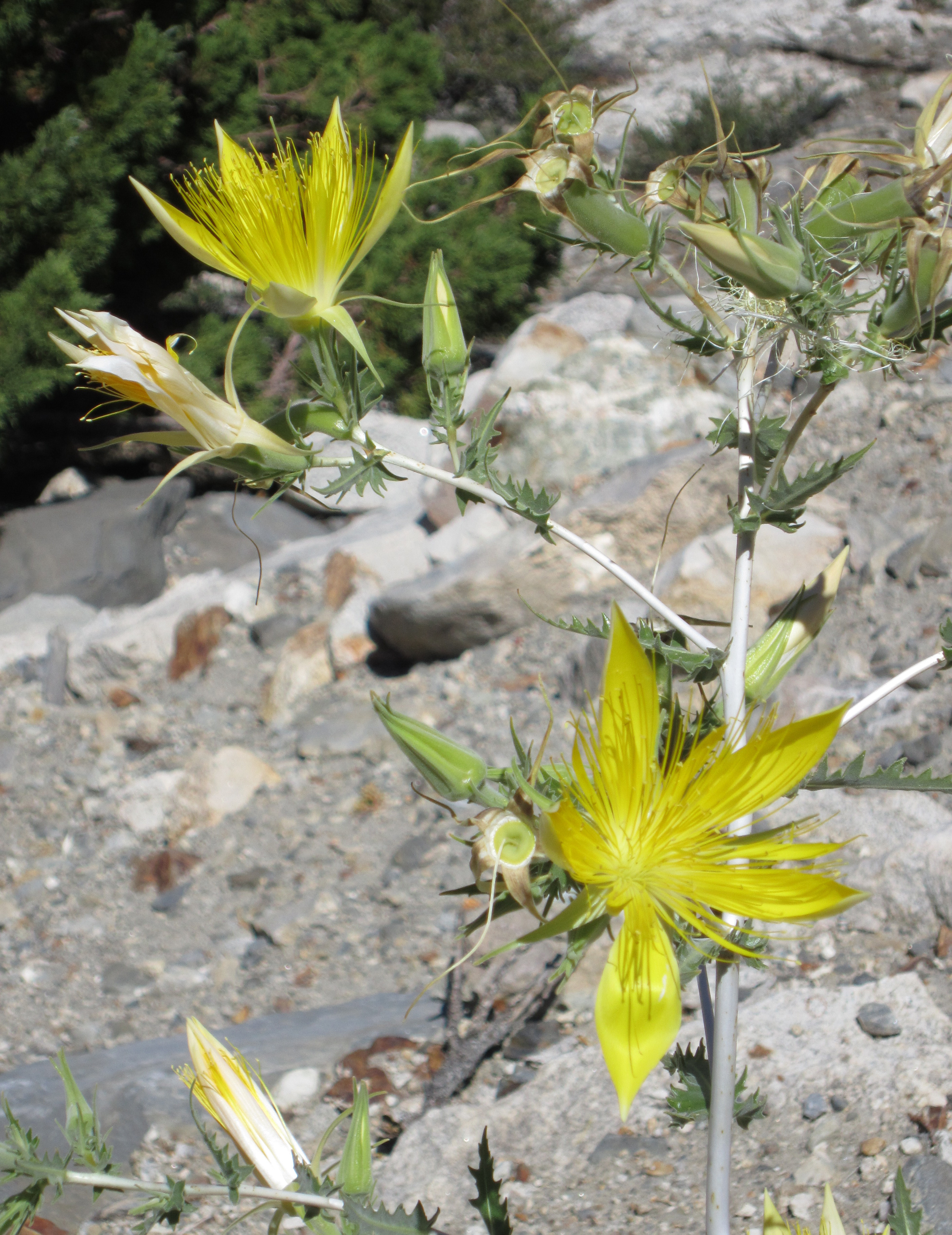 Blazing star (Mentzelia laevicaulis) — flower closeup. On Pine Creek Pass Trail at about 9000 ft, just outside John Muir Wilderness, Eastern Sierra Nevada, California.